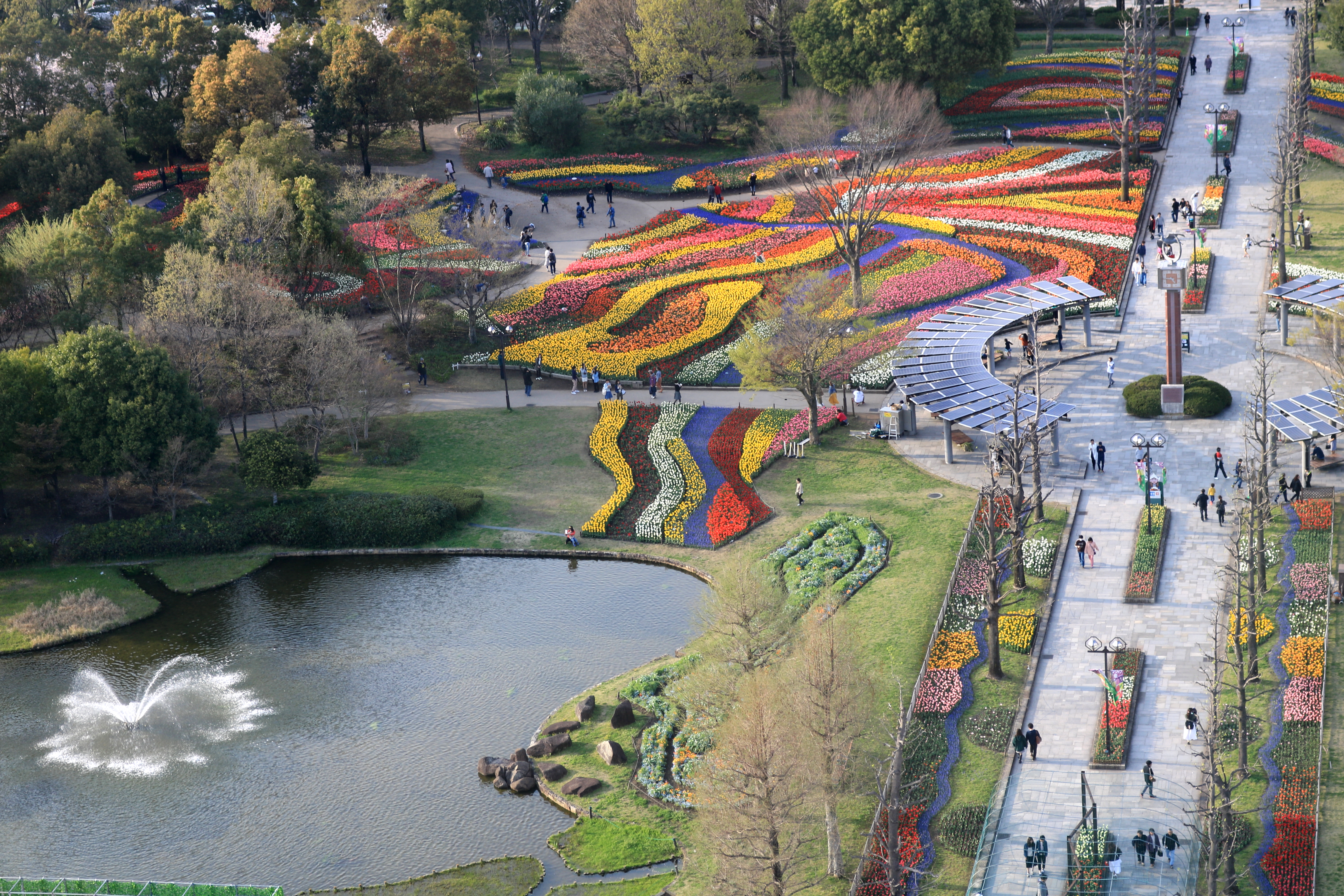 Tulip fields and pond seen from Observation tower of Kiso Sansen Park Center in Kaizu, Gifu Prefecture, Japan. Canon EOS Kiss X8i